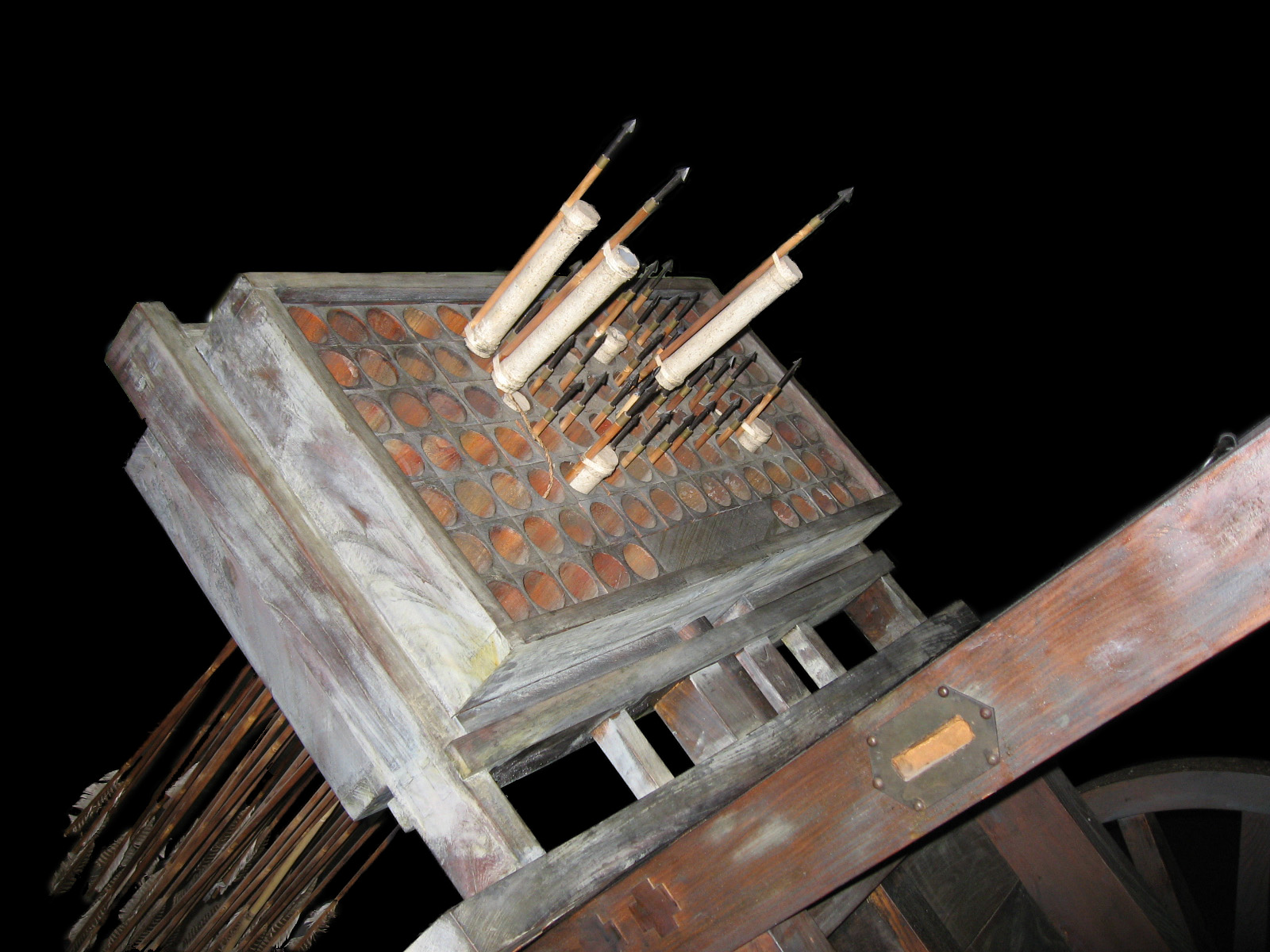 A close-up of the front of a Hwacha. (cropped)